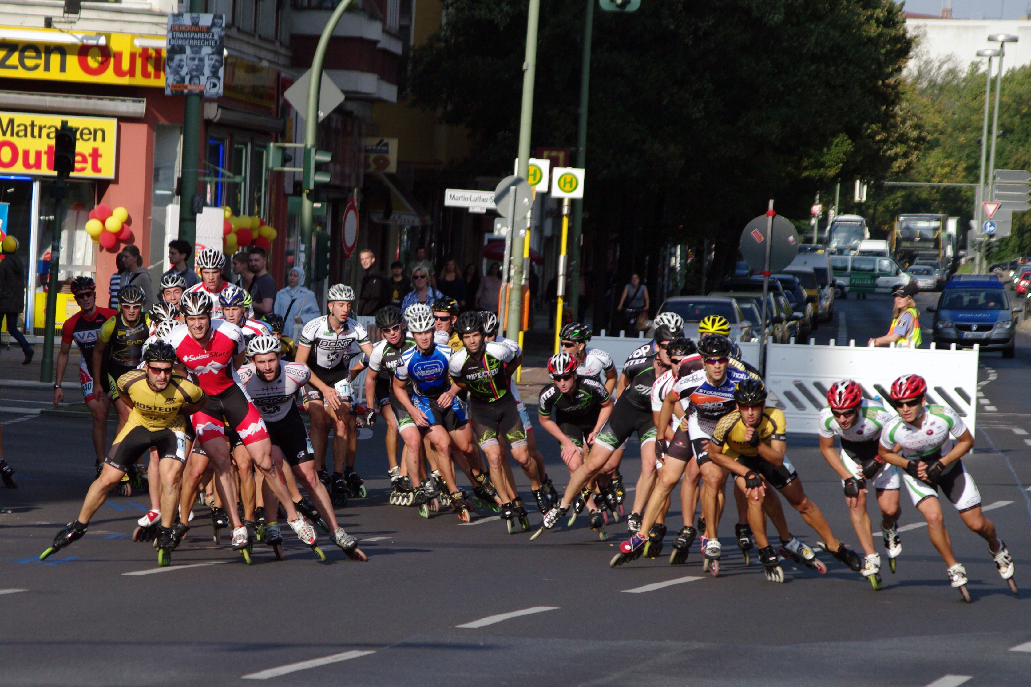 Berlin Inline Marathon. Kilometer 25, Innsbrucker Platz. Peloton.